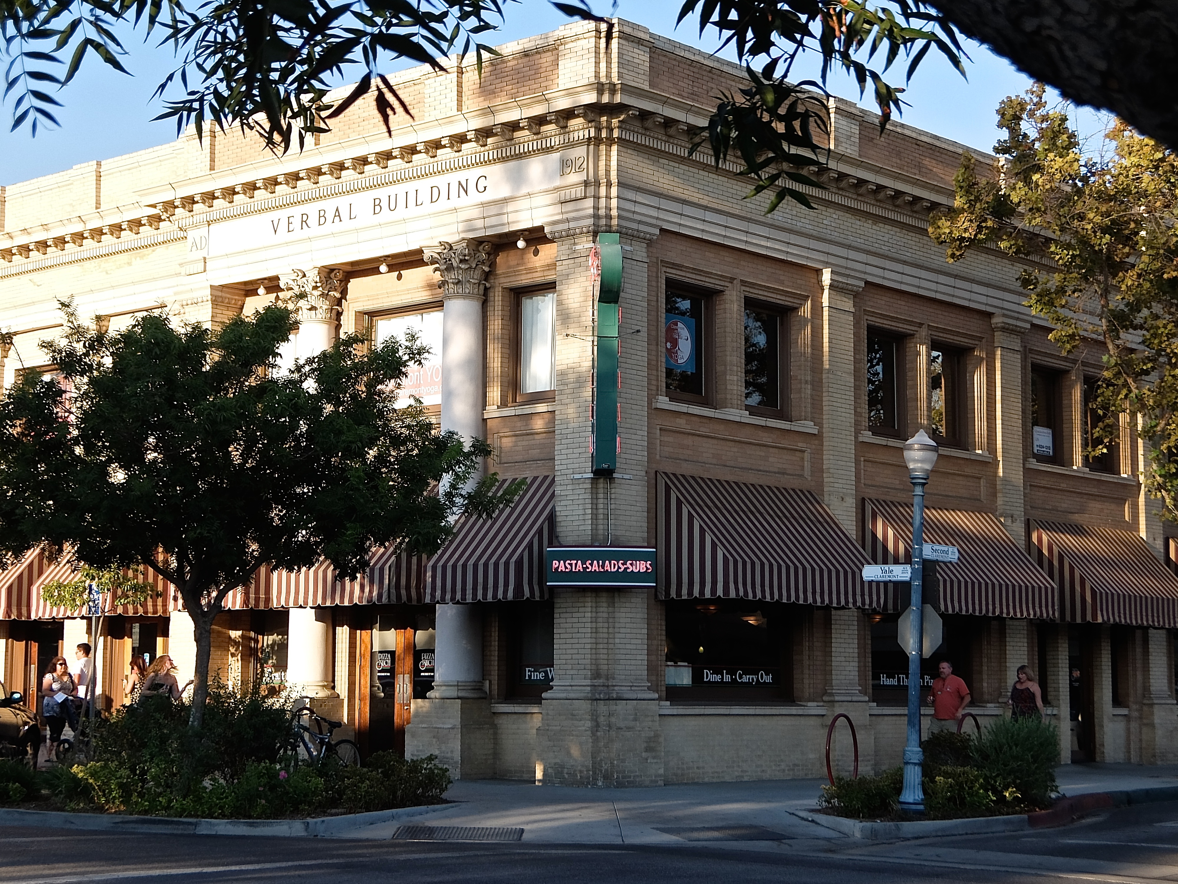 The Verbal Building, standing tall in the Village in Claremont, California, United States